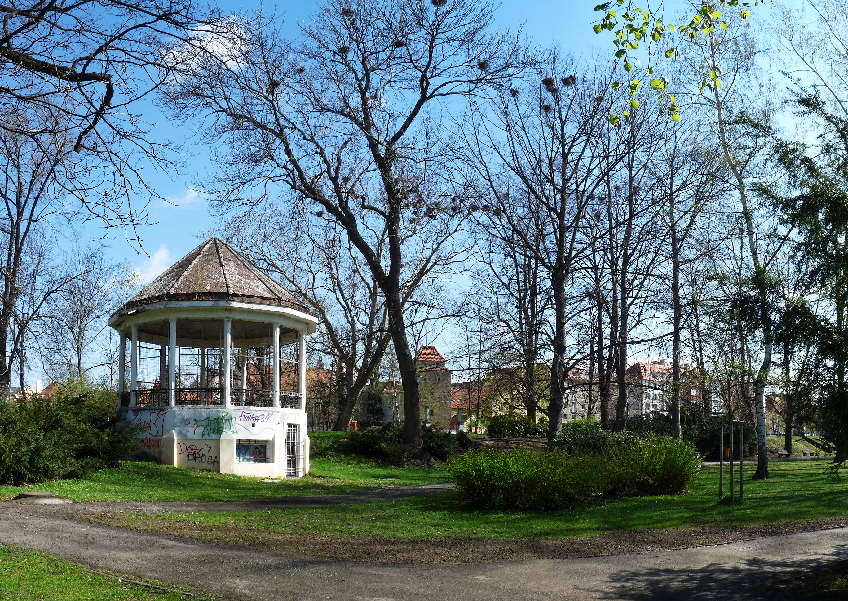 Háječek Park in České Budějovice, Czech Republic.